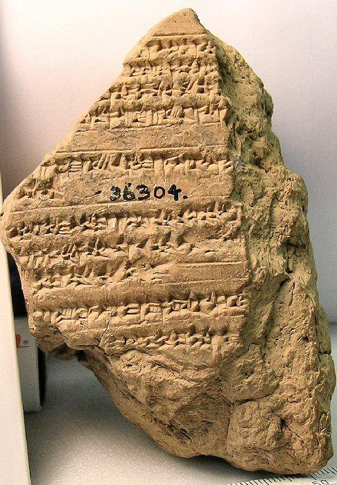 BCHP 01 Alexander Chronicle, reverse